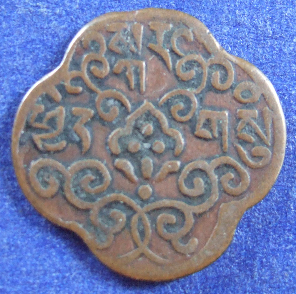 Tibetan 2 1/2 skar copper coin, dated 15-53 ( = AD 1919), reverse